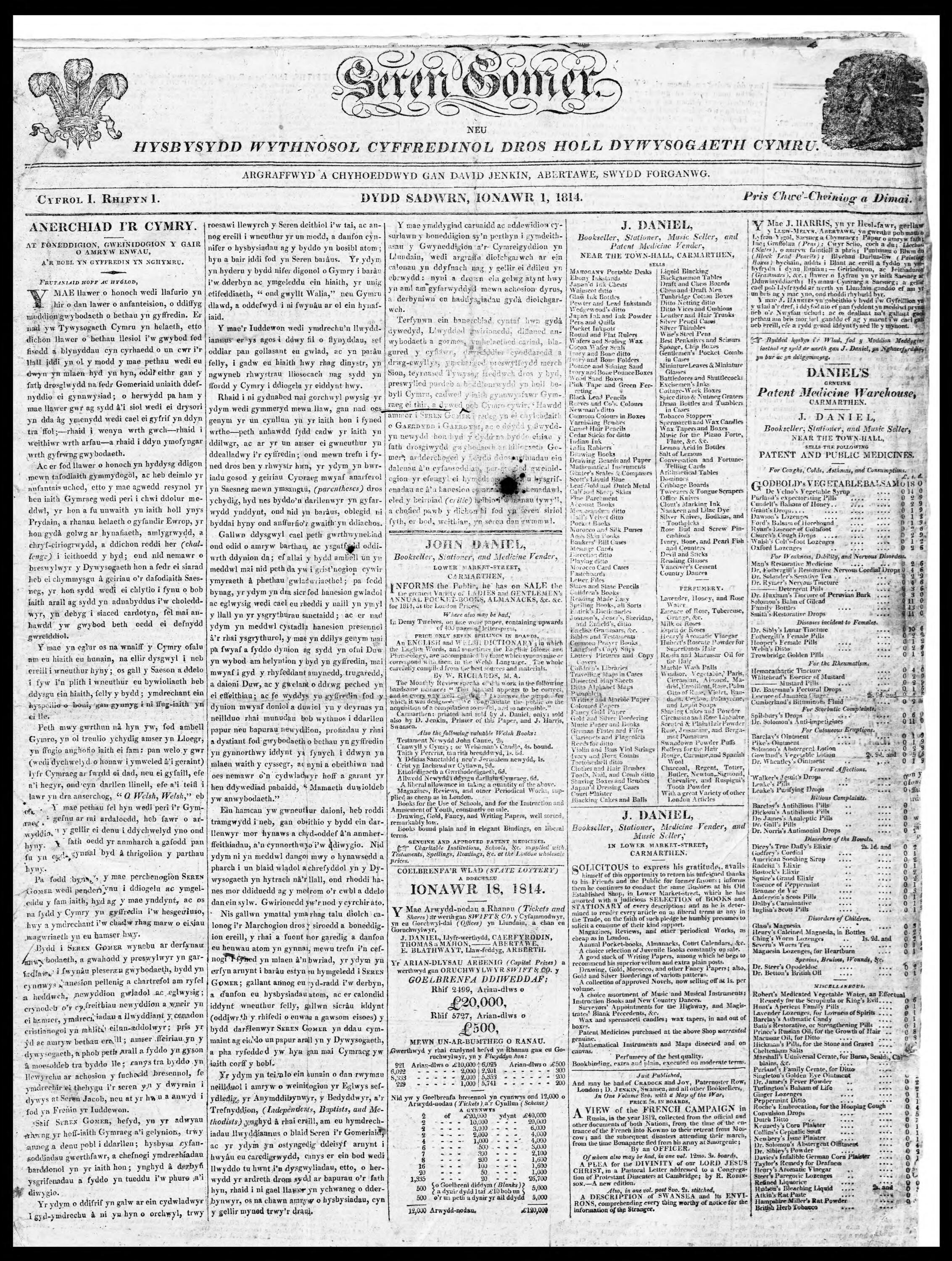 Front page of the earliest surviving copy of the Welsh newspaper Seren GomerCymraeg: Tudalen flaen y copi cynharaf sydd yn bodoli o'r papur newydd Cymraeg Seren Gomer